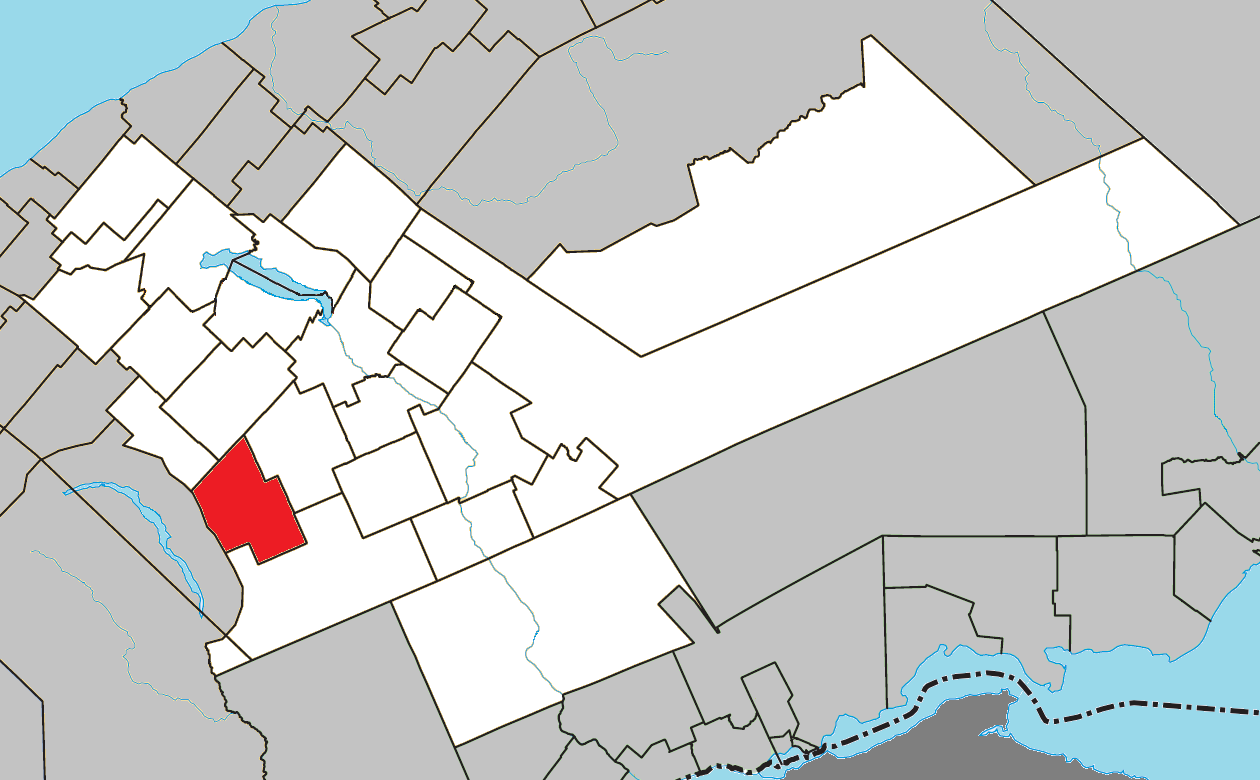 Location of Saint-Zénon-du-Lac-Humqui, Quebec within La Matapédia Regional County Municipality.